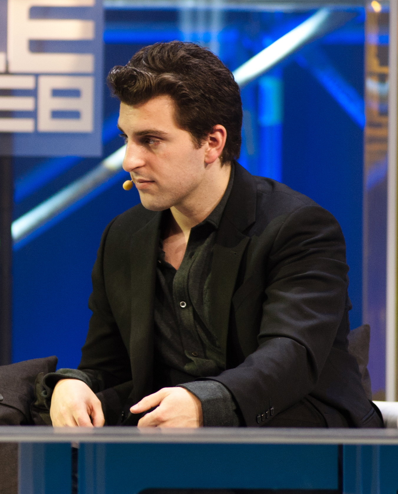 Brian Chesky, co-founder and CEO of Airbnb.